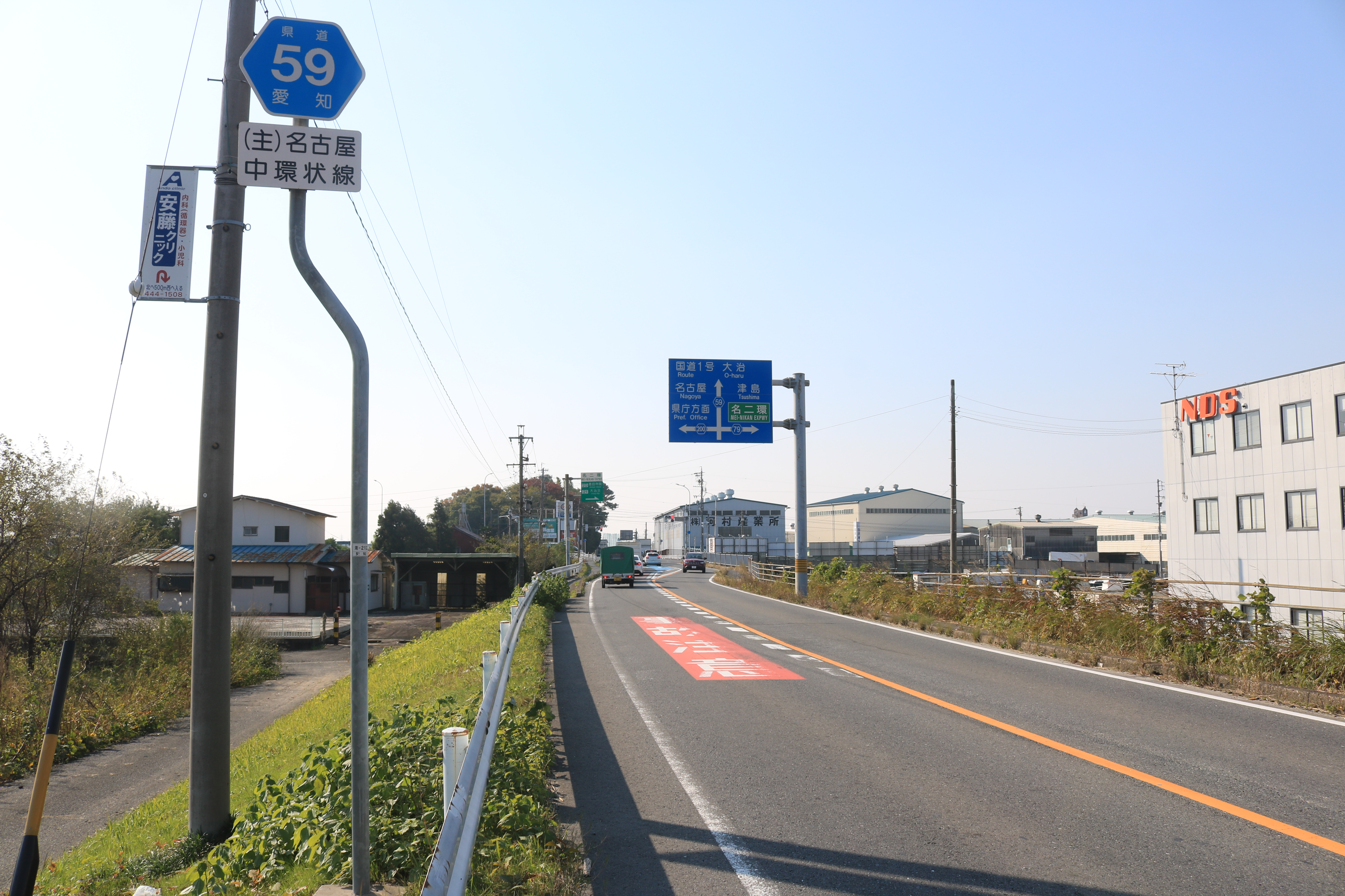 Aichi Prefectural Road Route 59 in Shimokayazu, Ama, Aichi Prefecture, Japan.